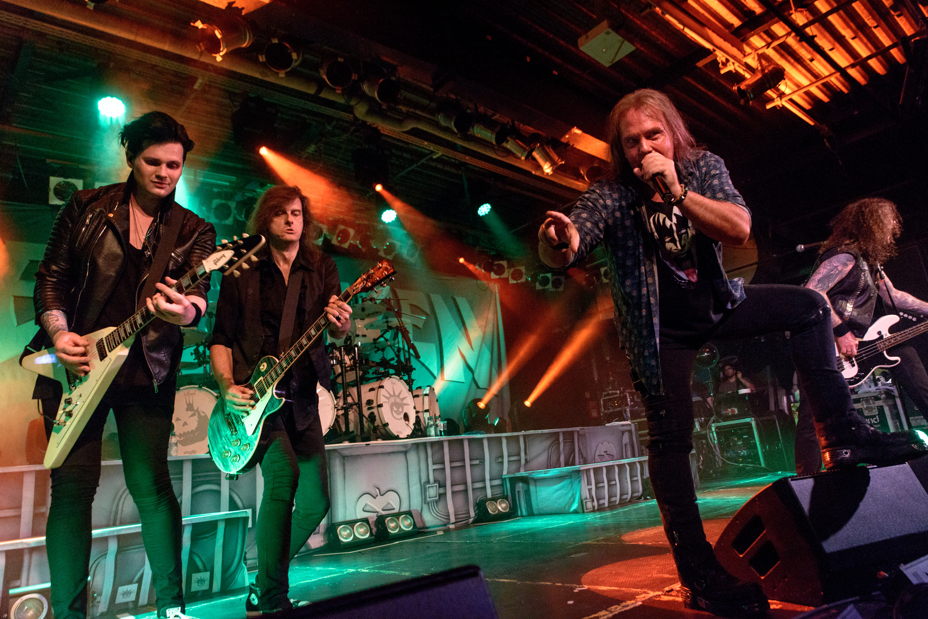 Helloween Live @ Backstage Werk, Munich